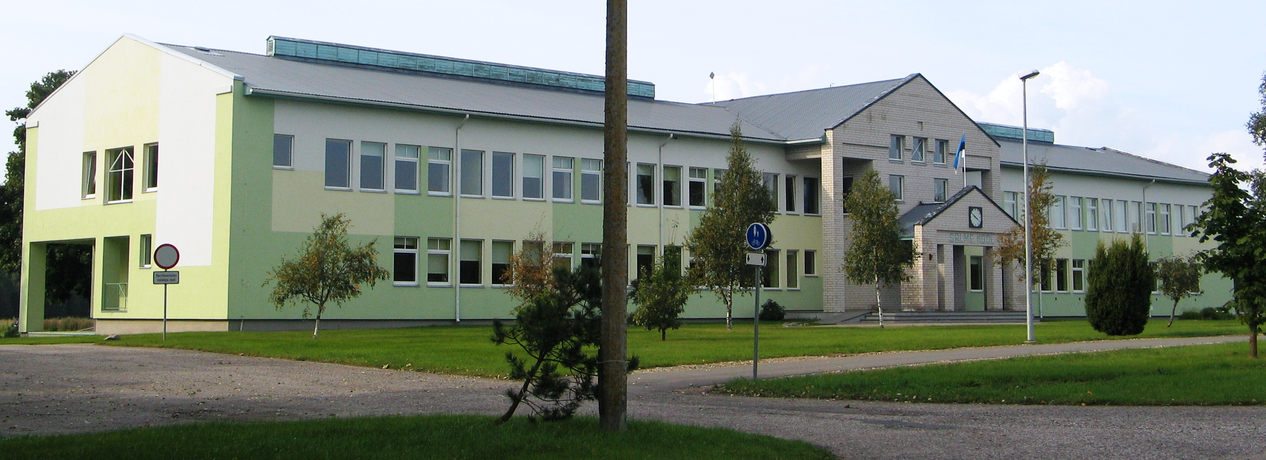 Salme Basic School